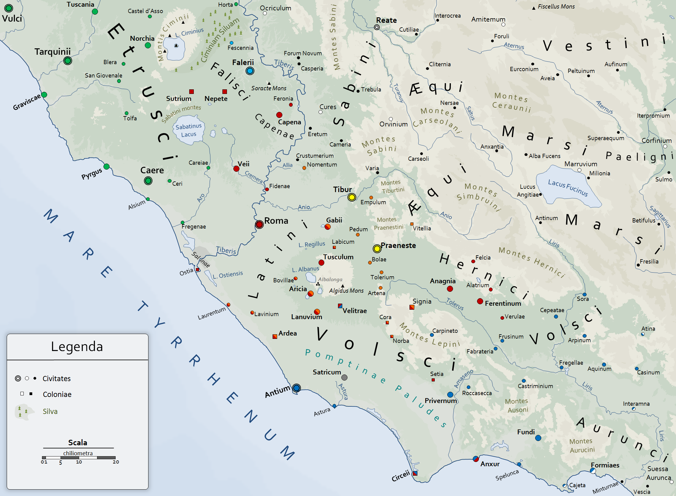 See Guerres_romano-volsques_(389_-_341)#Les_guerres_romano-volsques_de_358_.C3.A0_341 for the full legend/caption of the map.